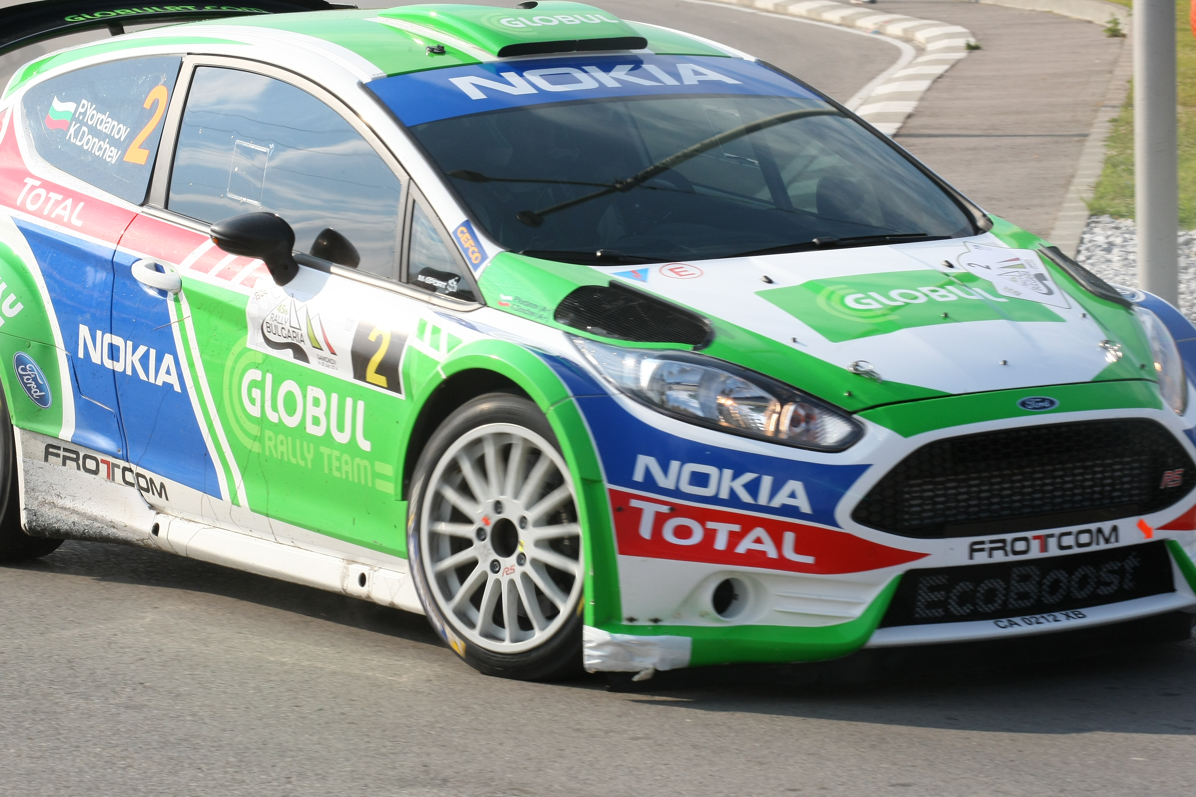 Krum Donchev - bulgarian rally driver